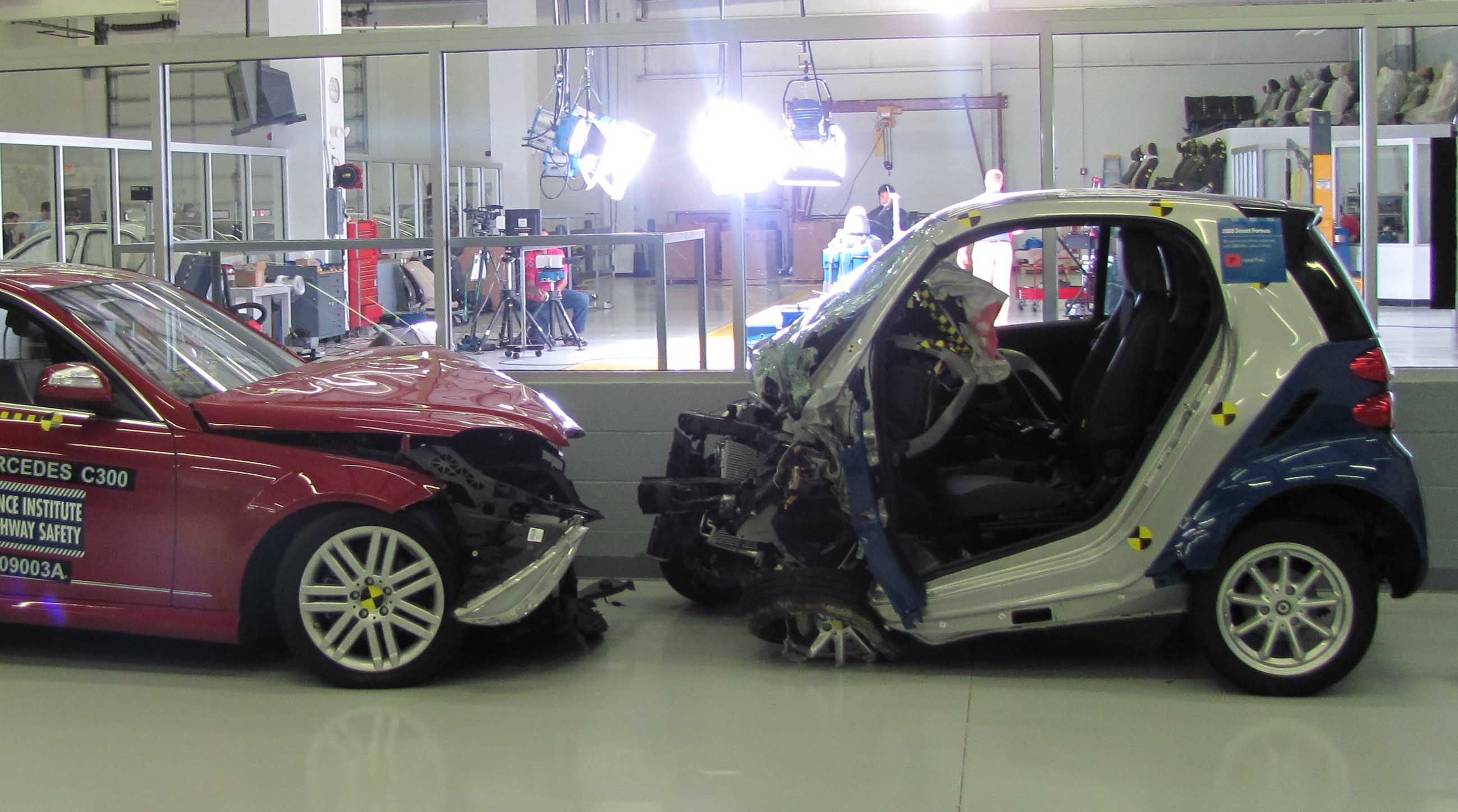 Head-on crash test between 2009 Smart ForTwo and 2009 Mercedes-Benz C300 photographed at the Insurance Institute for Highway Safety Vehicle Research Center. IIHS crash test page